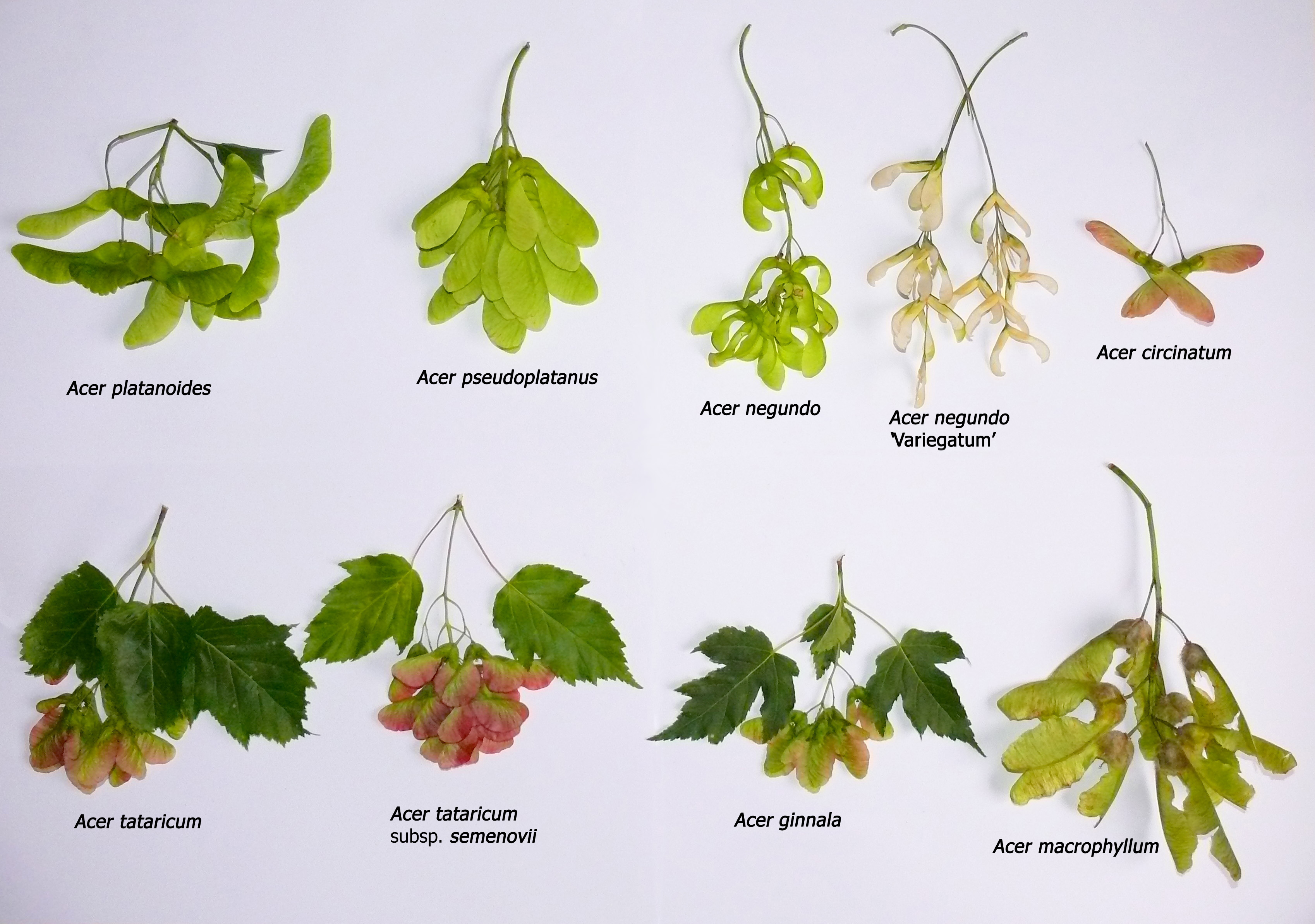 Acer seeds